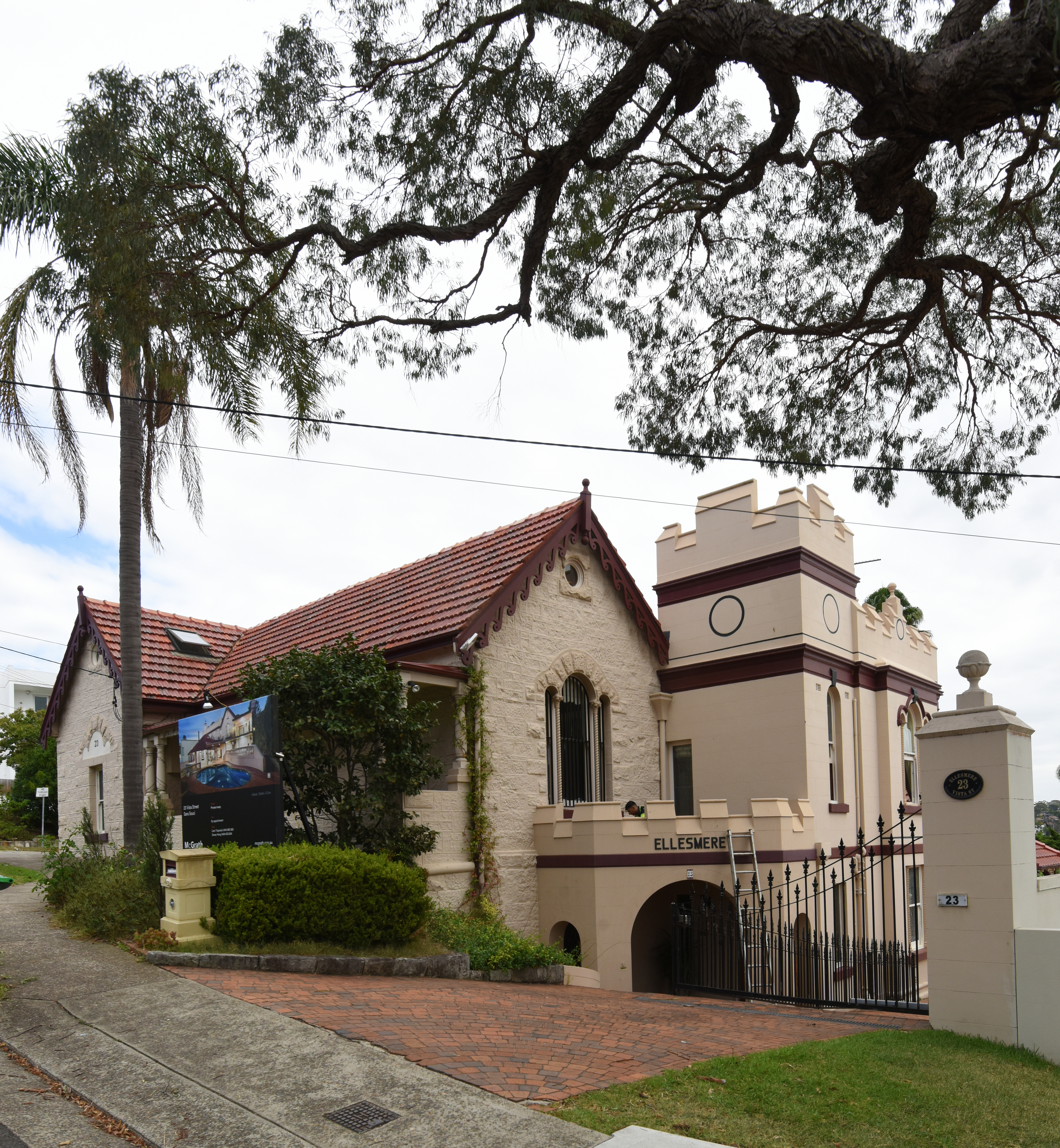 Ellesmere, former home of Sir Joseph Carruthers, first premier of New South Wales, Australia -- Sans Souci, Sydney